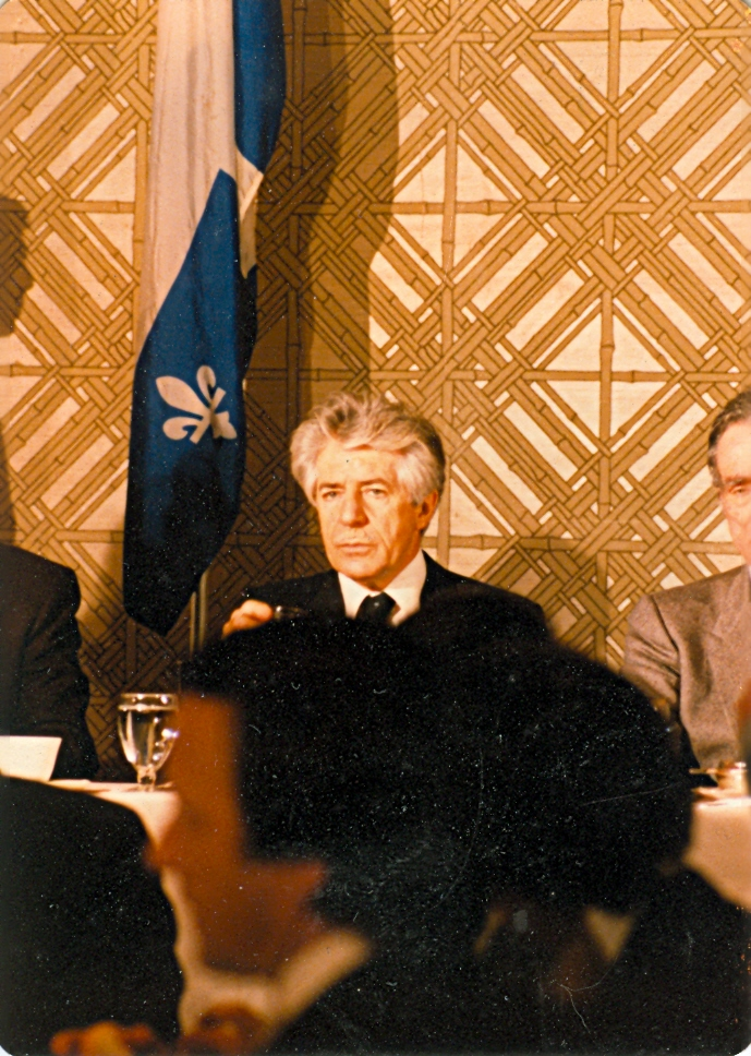 Jean Marchand at a fundraising meeting for the Liberal Party at the Queen Elizabeth Hotel in Montréal, Québec.